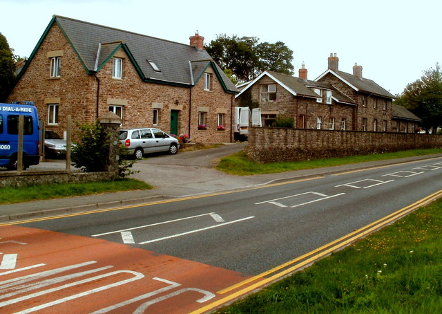 Site of Talgarth railway stationViewed across the A479, which here follows the route of the dismantled railway adjacent to the location of the demolished Talgarth railway station, where passenger services ended in 1962. Both houses have a railway connection name. On the left is The Sidings. On the right is Cambrian House (in Station Yard.) Talgarth railway station was originally part of the Cambrian Railway company which was absorbed by the Great Western Railway (GWR) on January 1st 1923 as part of the Grouping, a result of the Railways Act 1921.